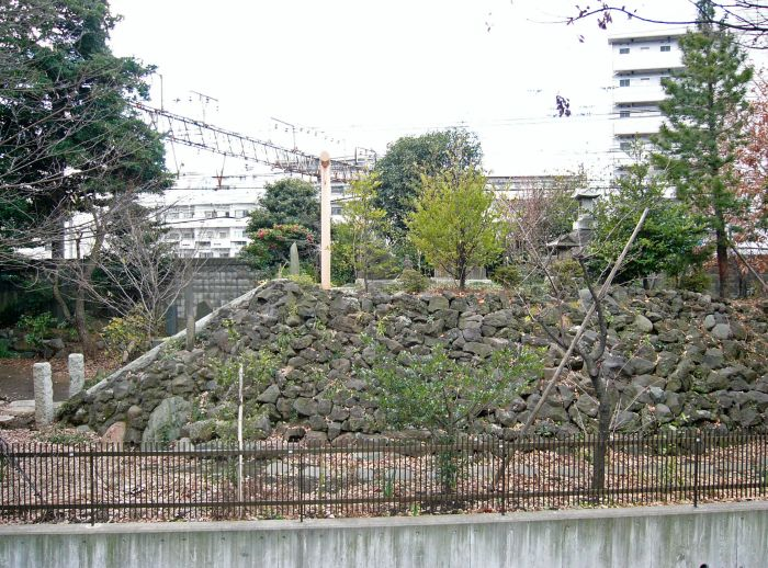 Mt.Fuji-shaped mound,Tsurumi Shrine(Yokohama-shi),JAPAN